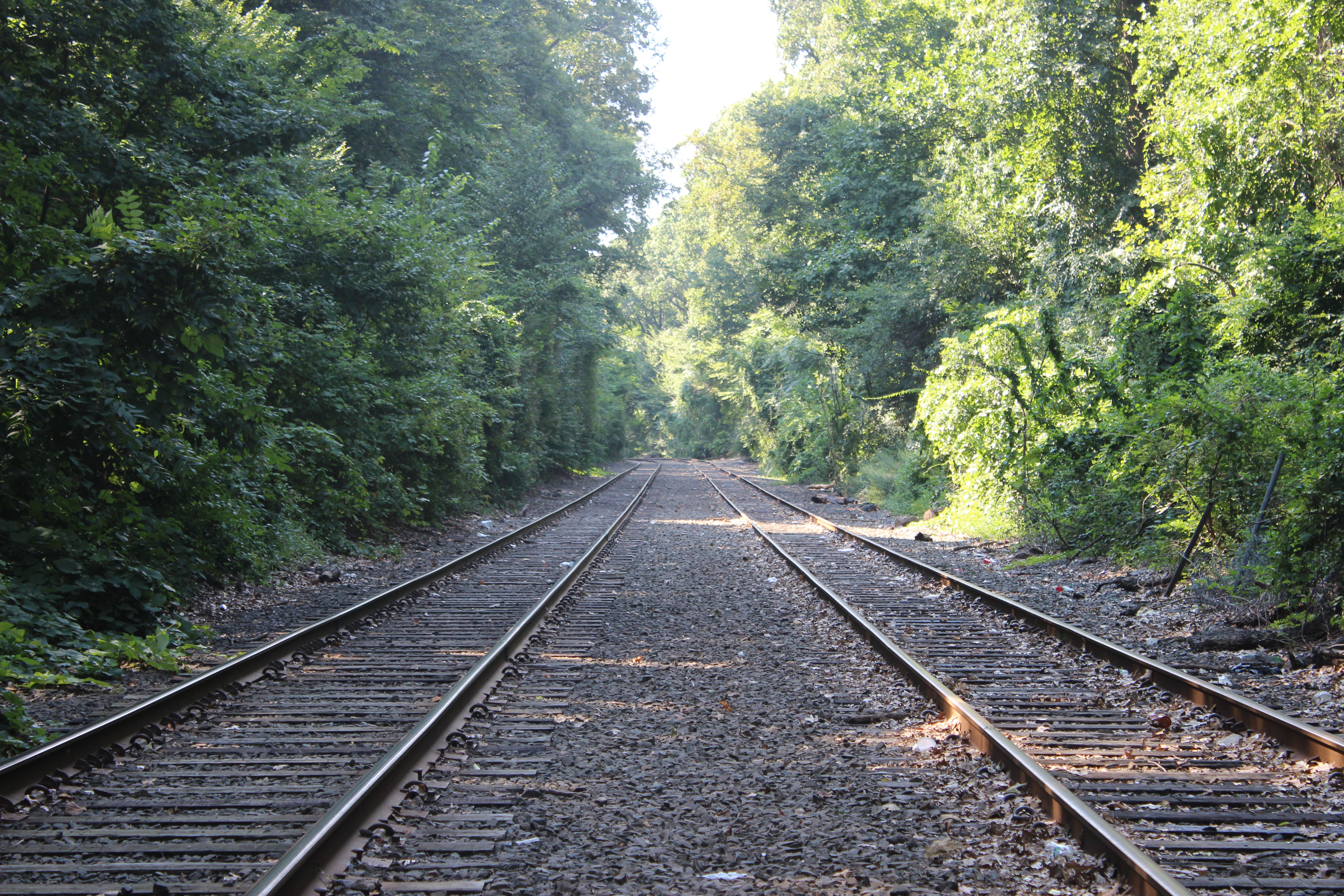 Located in Forest Park,Richmond Hill,Queens,New York